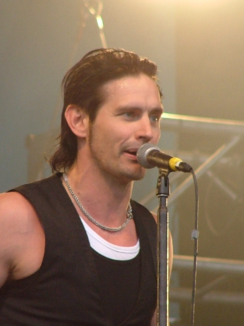 Finnish folk rock band Lauri Tähkä & Elonkerjuu live